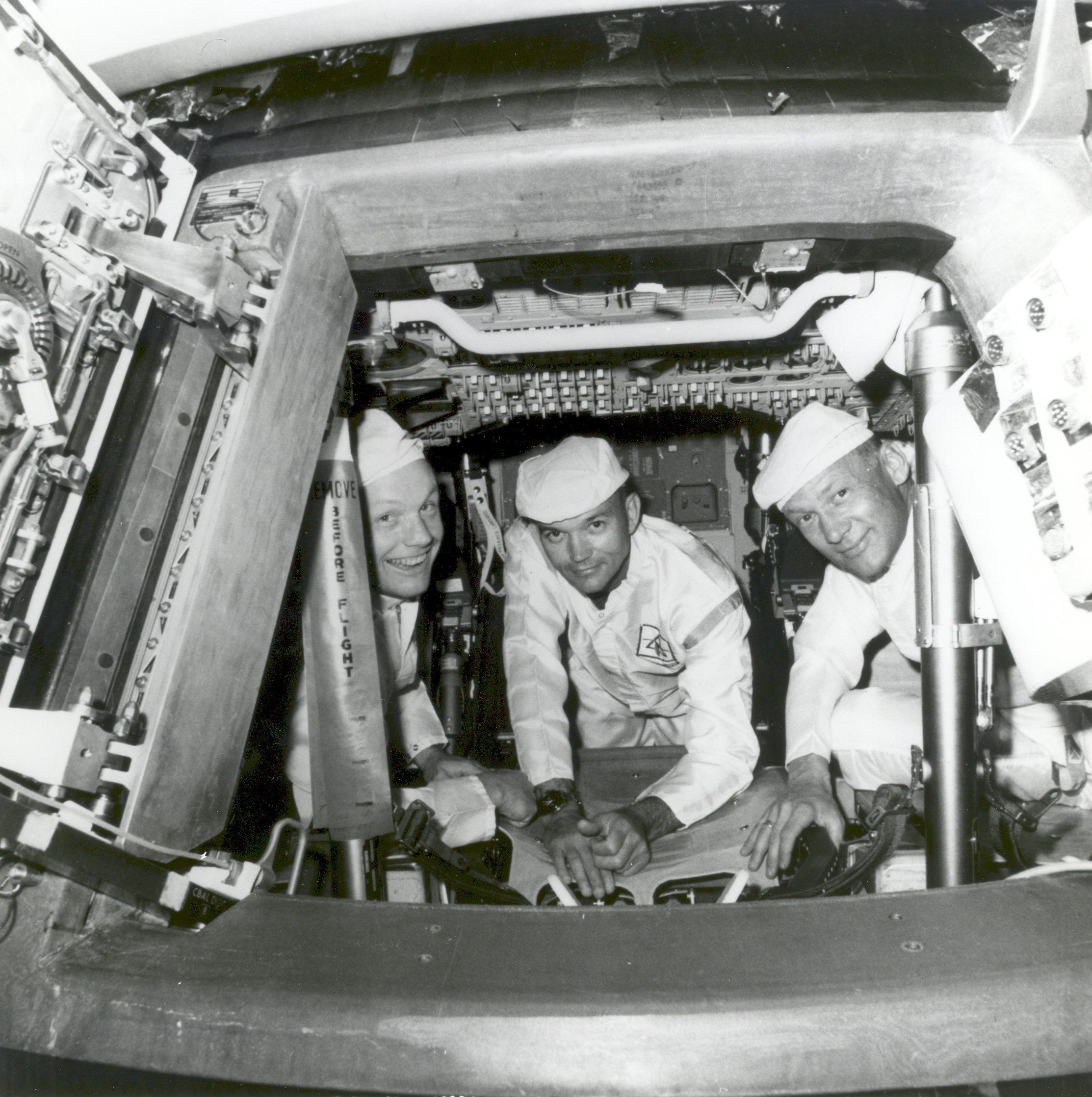 The Apollo 11 crew conducting a crew compartment fit and functional check, of the equipment and storage locations, in their command module. Peering from the hatch are from left, Neil Armstrong, commander; Michael Collins, command module pilot; and Buzz Aldrin, lunar module pilot. Armstrong and Aldrin later conducted a similar check aboard the lunar module, which carried them down to the lunar surface on July 20, 1969.